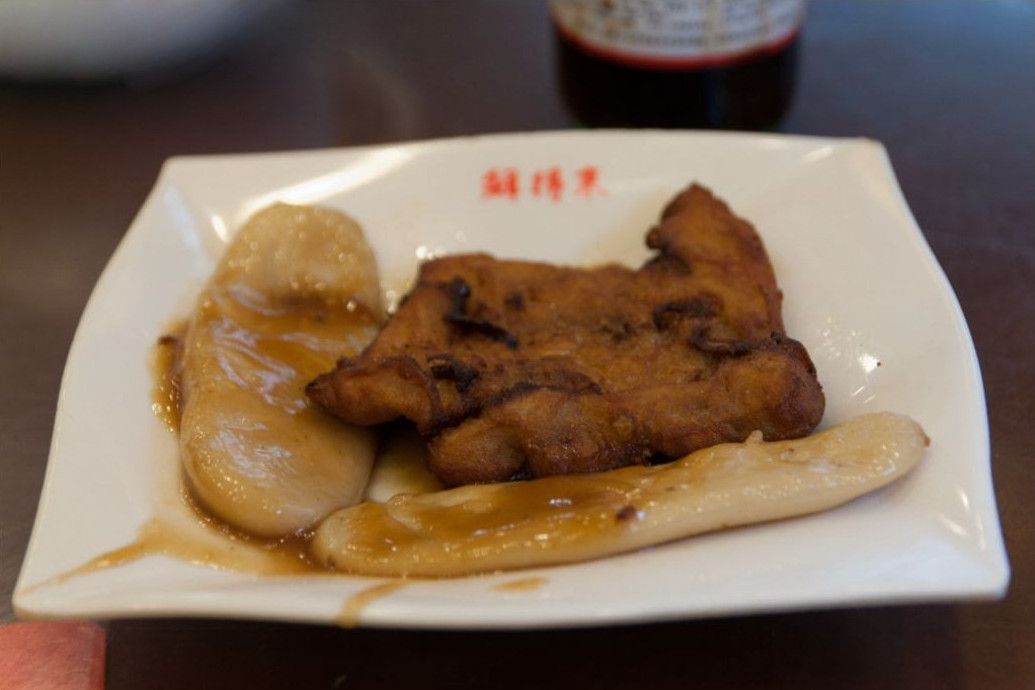 pork chop with Nian gao(Chinese glutinous rice cake)